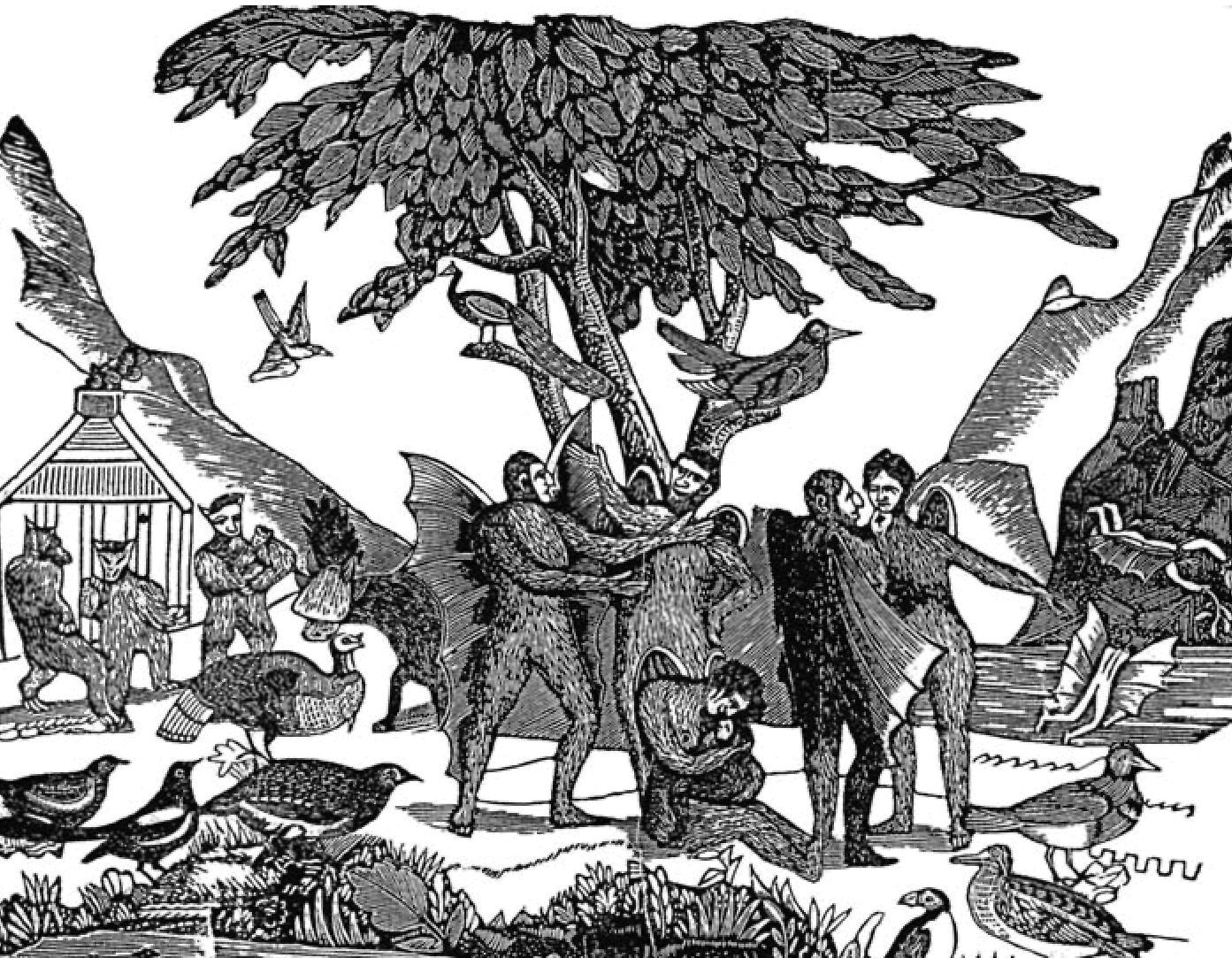 A busy lunar landscape, as depicted in a Welsh edition of the moon series. Note the plume of smoke issuing from the hut of the biped beavers. (Frontispiece of Hanes y Lleuad © The British Library Board. All Rights Reserved.)